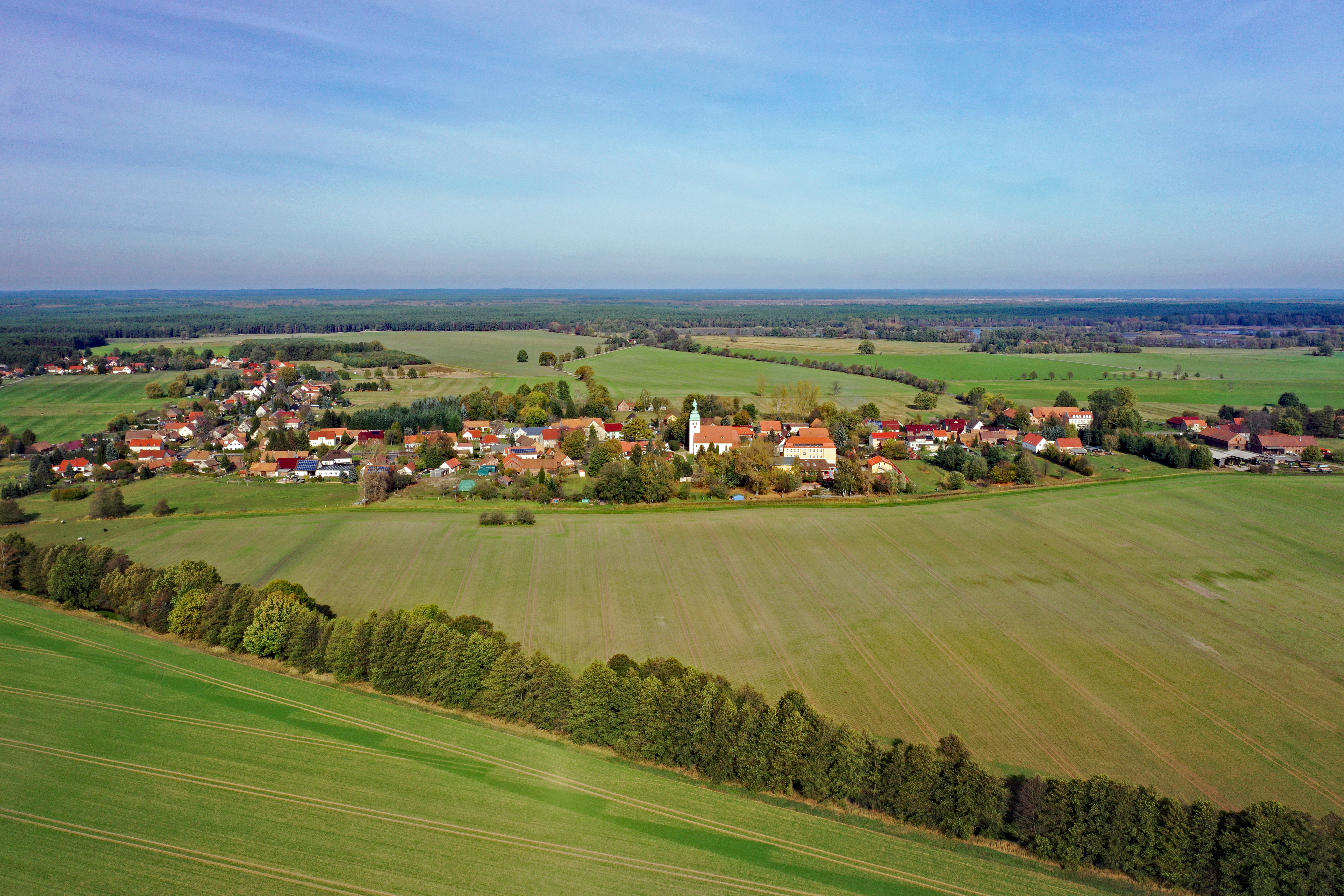 Daubitz (Rietschen, Landkreis Görlitz, Saxony, Germany) Hornjoserbsce: Powětrowy wobraz Dubca pola Rěčic